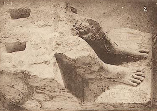 Lower Part of a Statue of Djedkare Asosi from Abydos